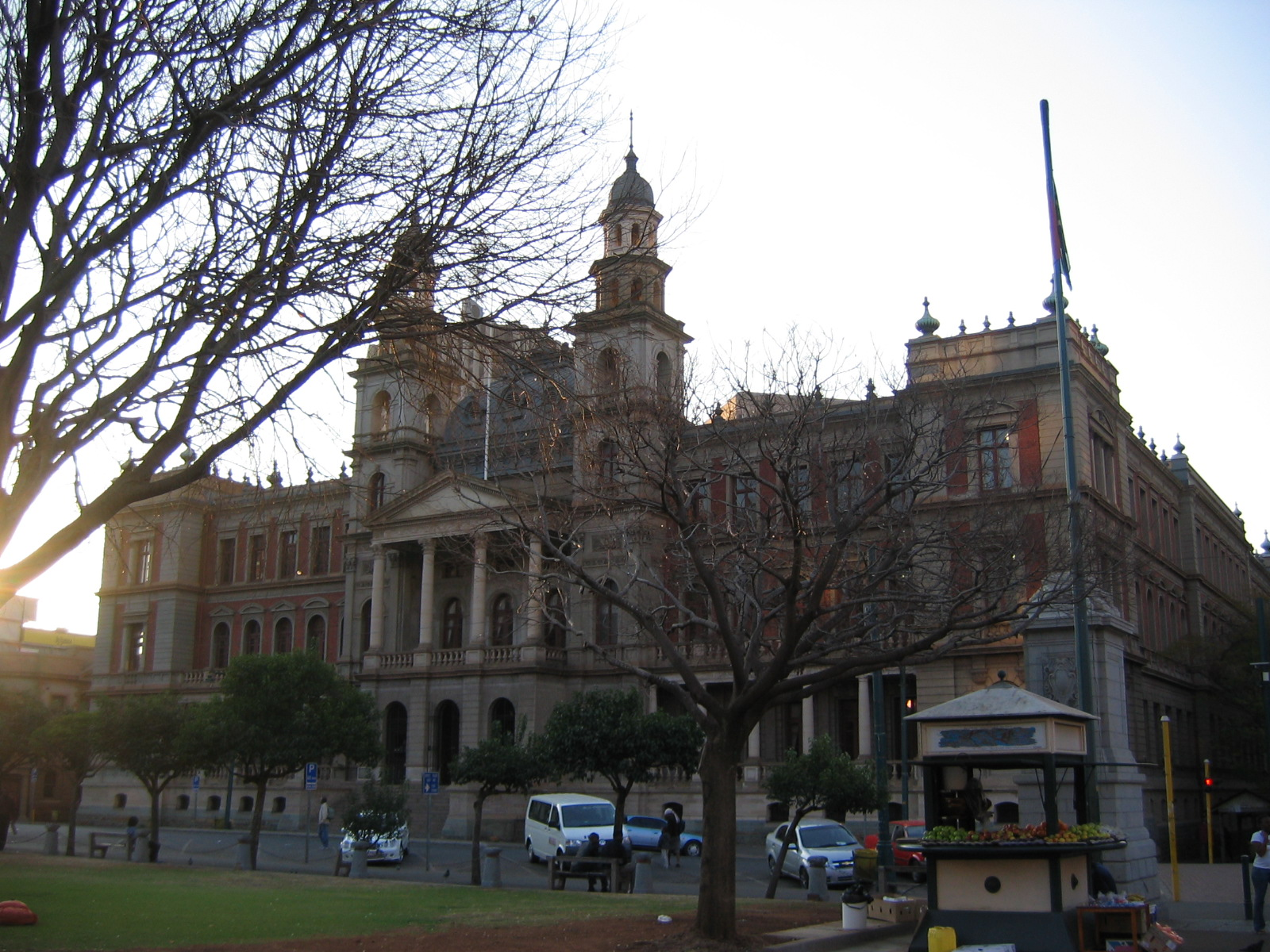 Palace of Justice on Church Square - Pretoria, South AfricaChurch Square